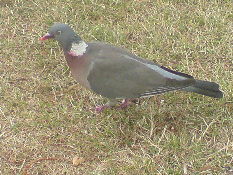 A wood-pigeon (Columba palumbus) in Kew Gardens, England.